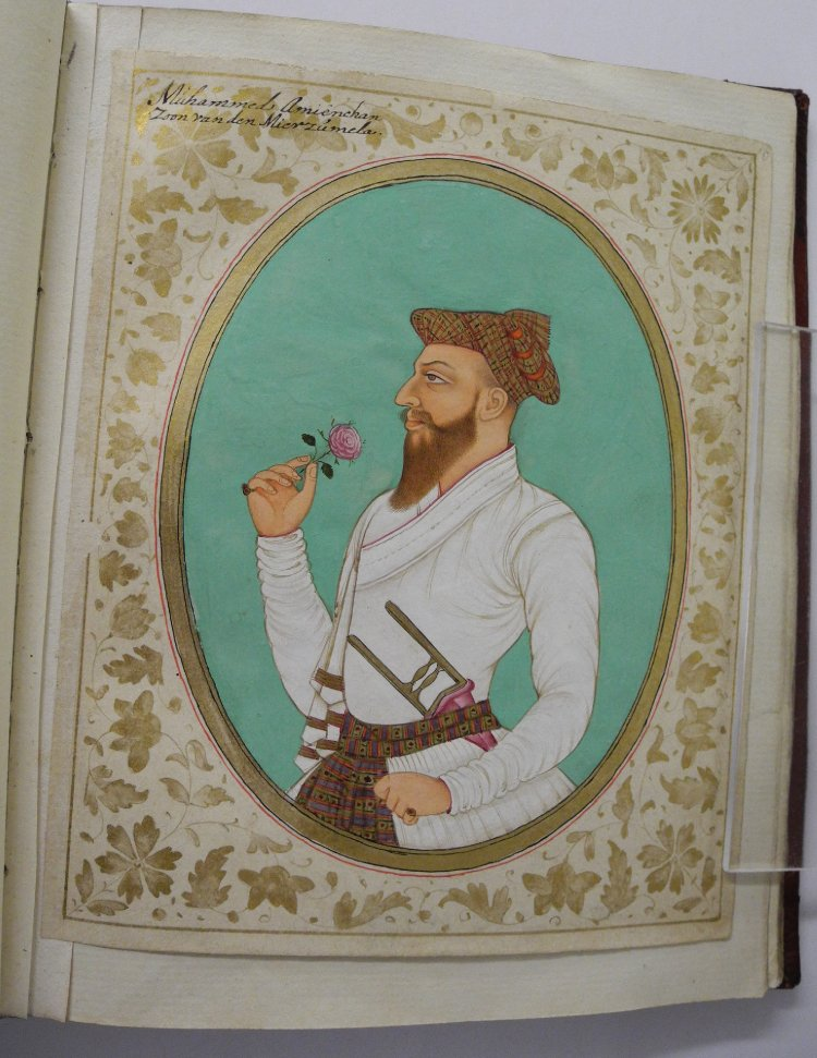 Album leaf. Portrait. Muḥammad Amín Xán + inscription. On paper. Military commander under the Mughal Emperor Jahangir (q.v) and later as governor of Afghanistan. Under Muhammad Shah (q.v) he became a minister.